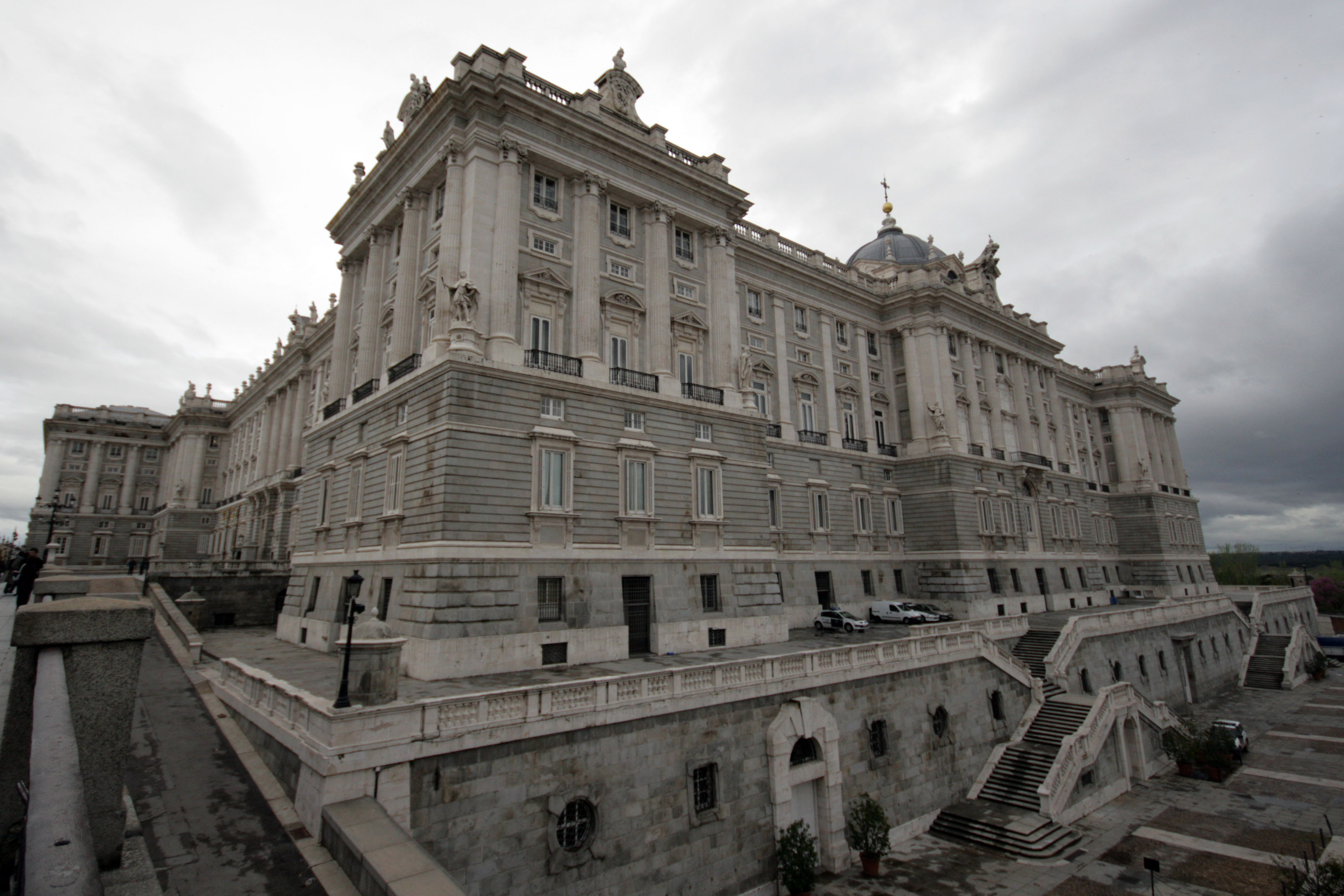 View of the Royal Palace of Madrid (Spain) from the North–East angle.